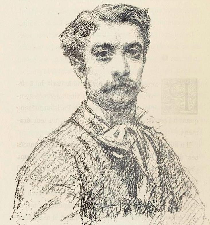 Selfportrait by Paul Jamin, sketch.